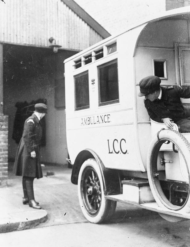 Ministry of Information First World War Official Collection London County Council women ambulance arriving back at ambulance station.